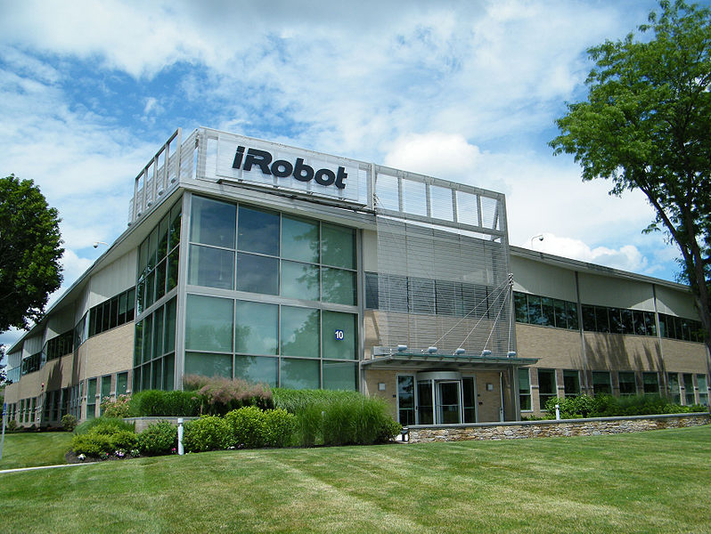 iRobot headquarters in Bedford. Photographed by user Coolcaesar on June 20, 2009.